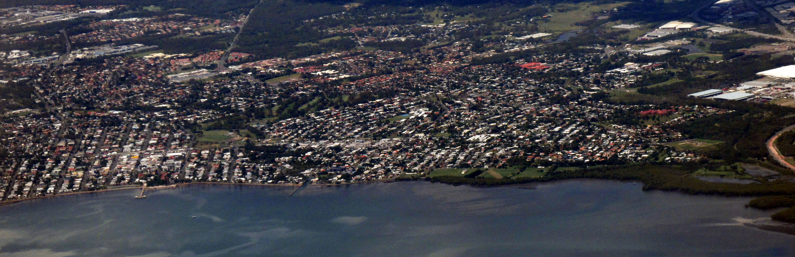 View of Wynnum, Queensland, from the north-east.